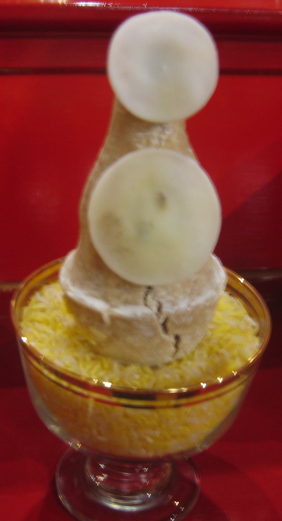 Torma (offering cakes) on the shrine of a Tibetan Buddhist dharma centre in London.